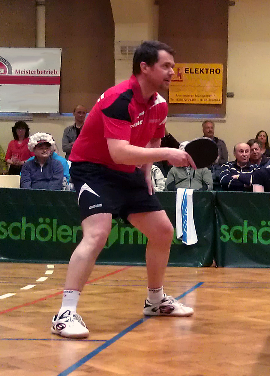 Table tennis player Steffen Fetzner at an exhibition 2012